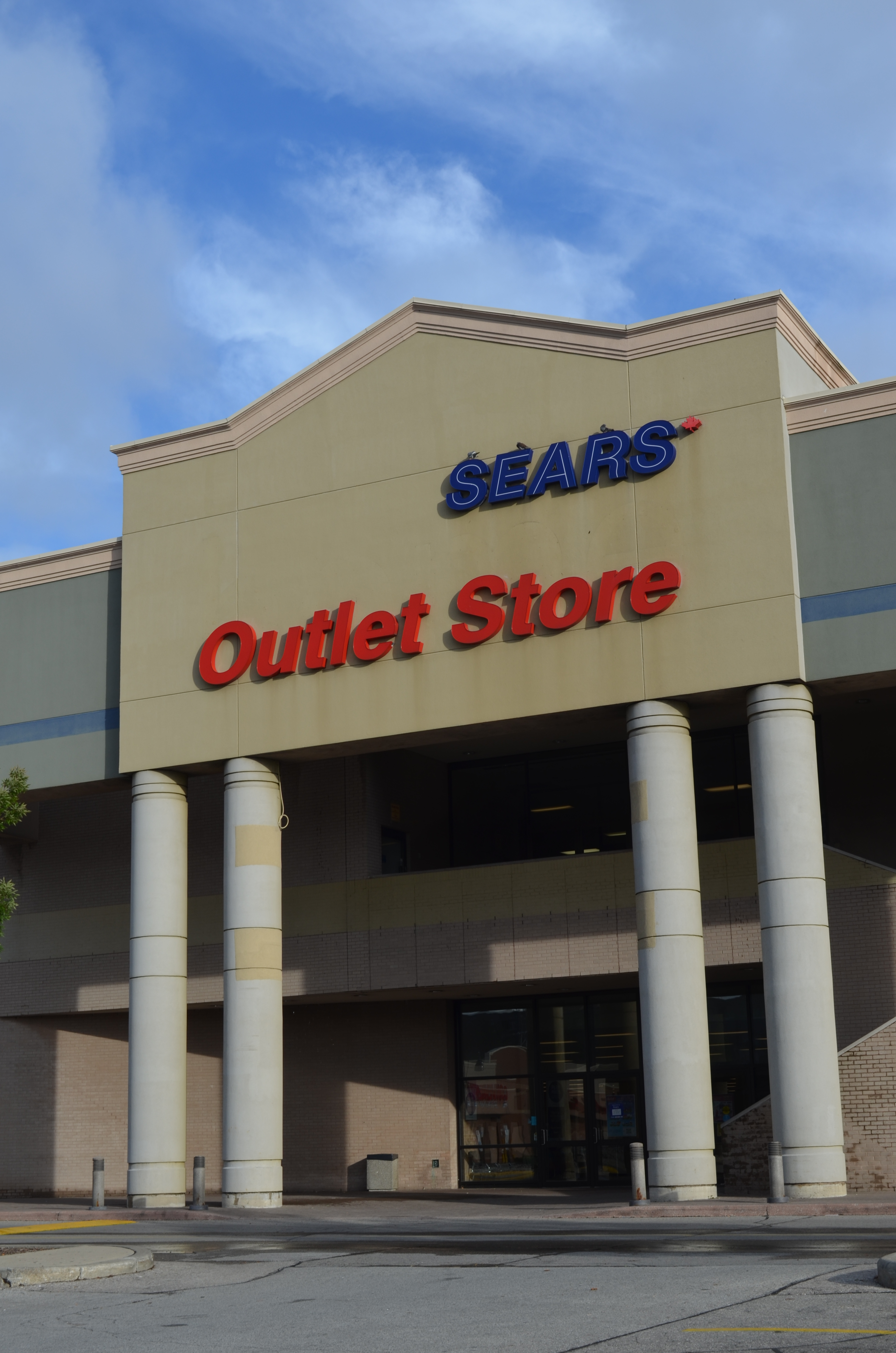 Markham Fashion Outlet - 2900 Steeles Ave East, Thornhill, Ontario